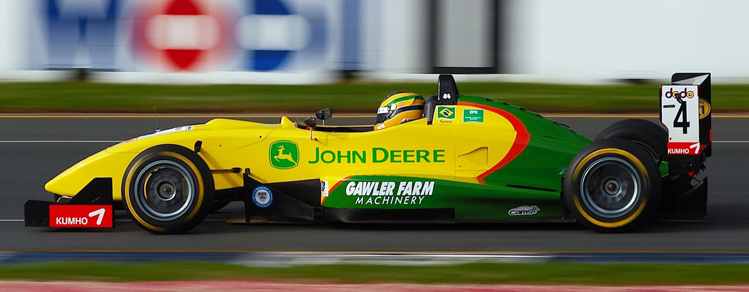 Original version: Image:Bruno Senna 2006 Australian Grand Prix.jpg Bruno Senna drives a Dallara F304 Formula Three Car during a support race at the 2006 Australian Grand Prix Attribution to Glenn Thomas.